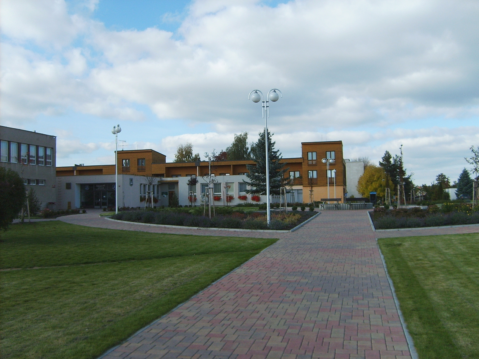 Center of Dolní Kralovice municipality, Benešov District, Czech rep.